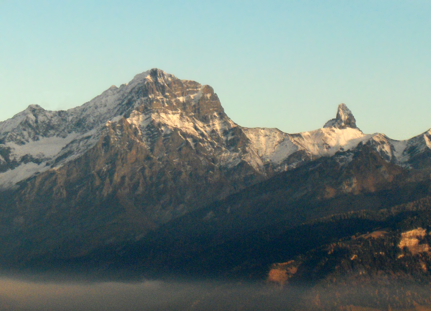 "Grand Muveran" (left, 3051 m) and "Petit Muveran" (right, 2810 m) (Vaud, Valais / Switzerland). Picture taken from Torgon (Valais).